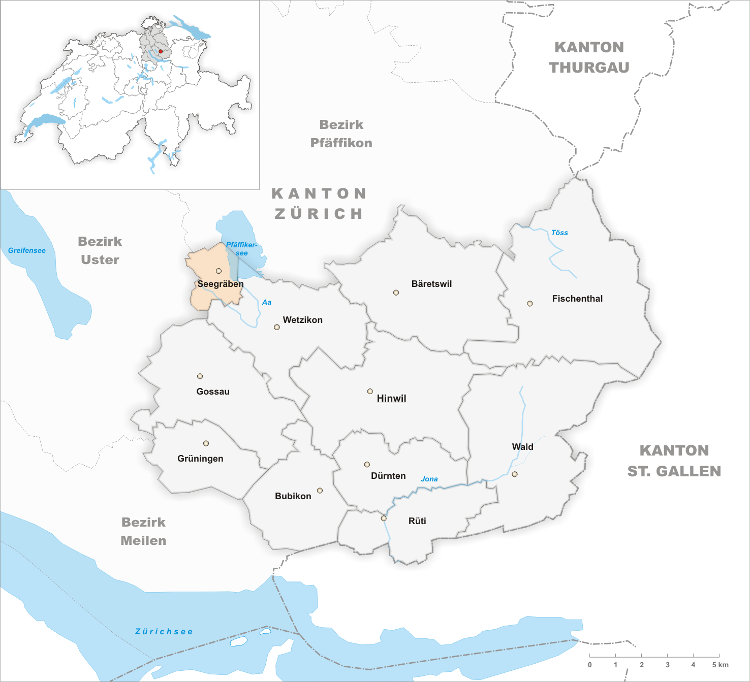 Municipality Seegräben